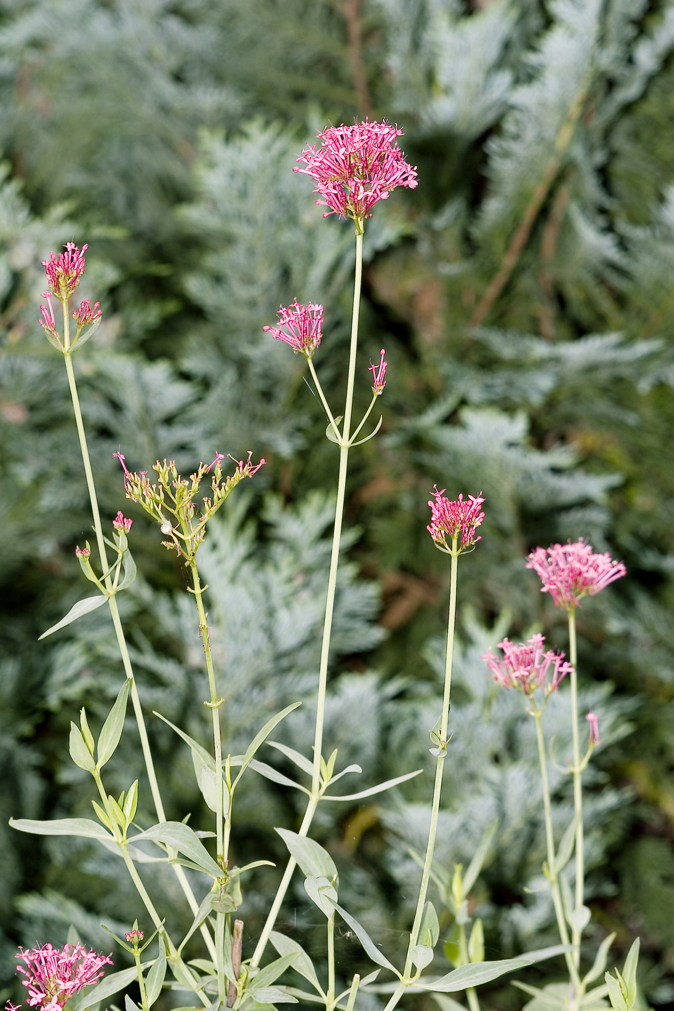 Red Valerian, Centranthus ruber, Many thanks to Benutzer:Franz Xaver for determination!